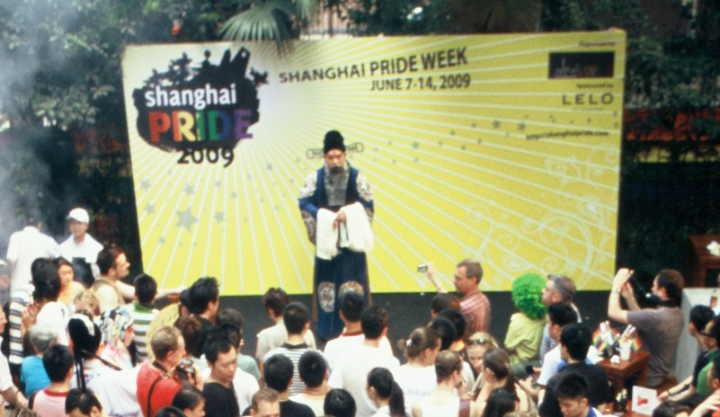 This was the first LGBTQ Pride Celebration in China.